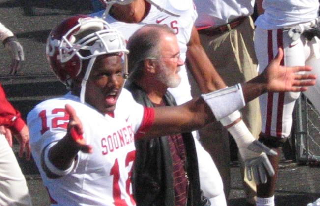 Cropped image of Oklahoma Sooners Quarterback Paul Thompson following a victory over the Missouri Tigers on October 28, 2006